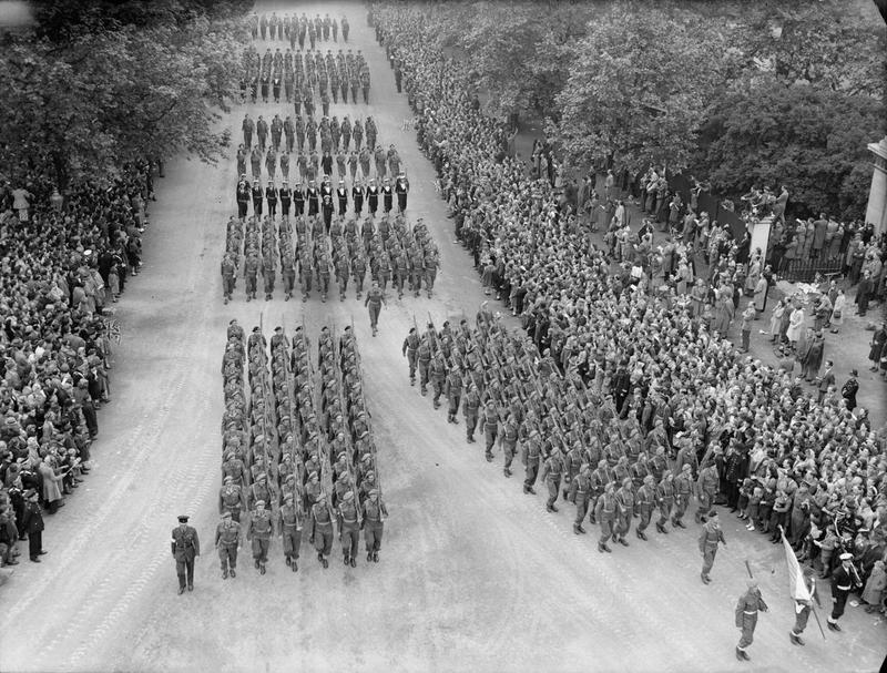 Allied Victory Parade in London, 1946 Servicemen and women of the South African contingent on the march during the Victory Parade in London on 8 June 1946, followed by the smaller Southern Rhodesian and Newfoundland contingents.